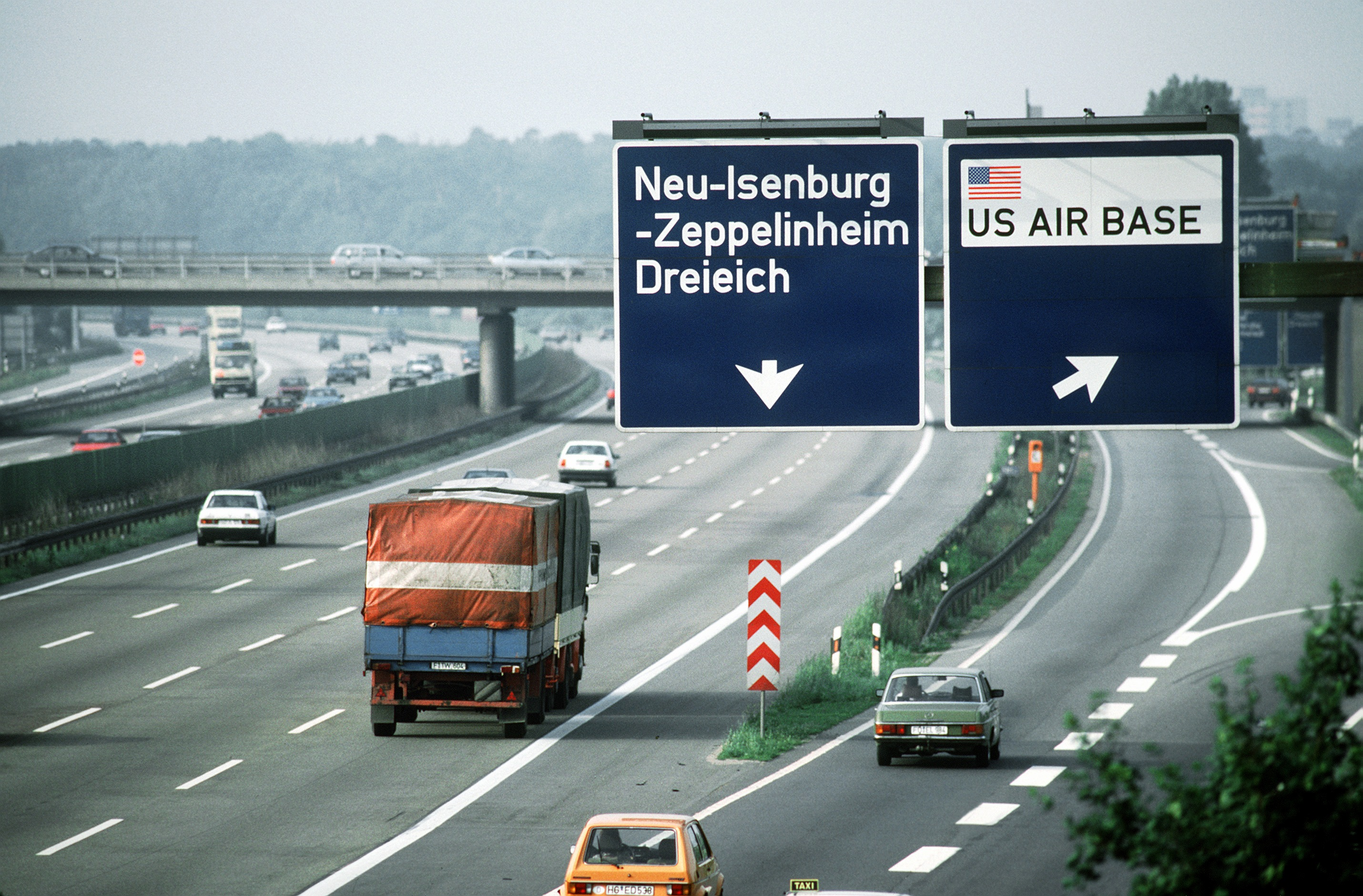 A view down the Autobahn A5 (Frankfurter Kreuz - Zeppelinheim/Dreieich) near Frankfurt, Germany showing the offramp for Rhein Main (U.S.) Air Base.